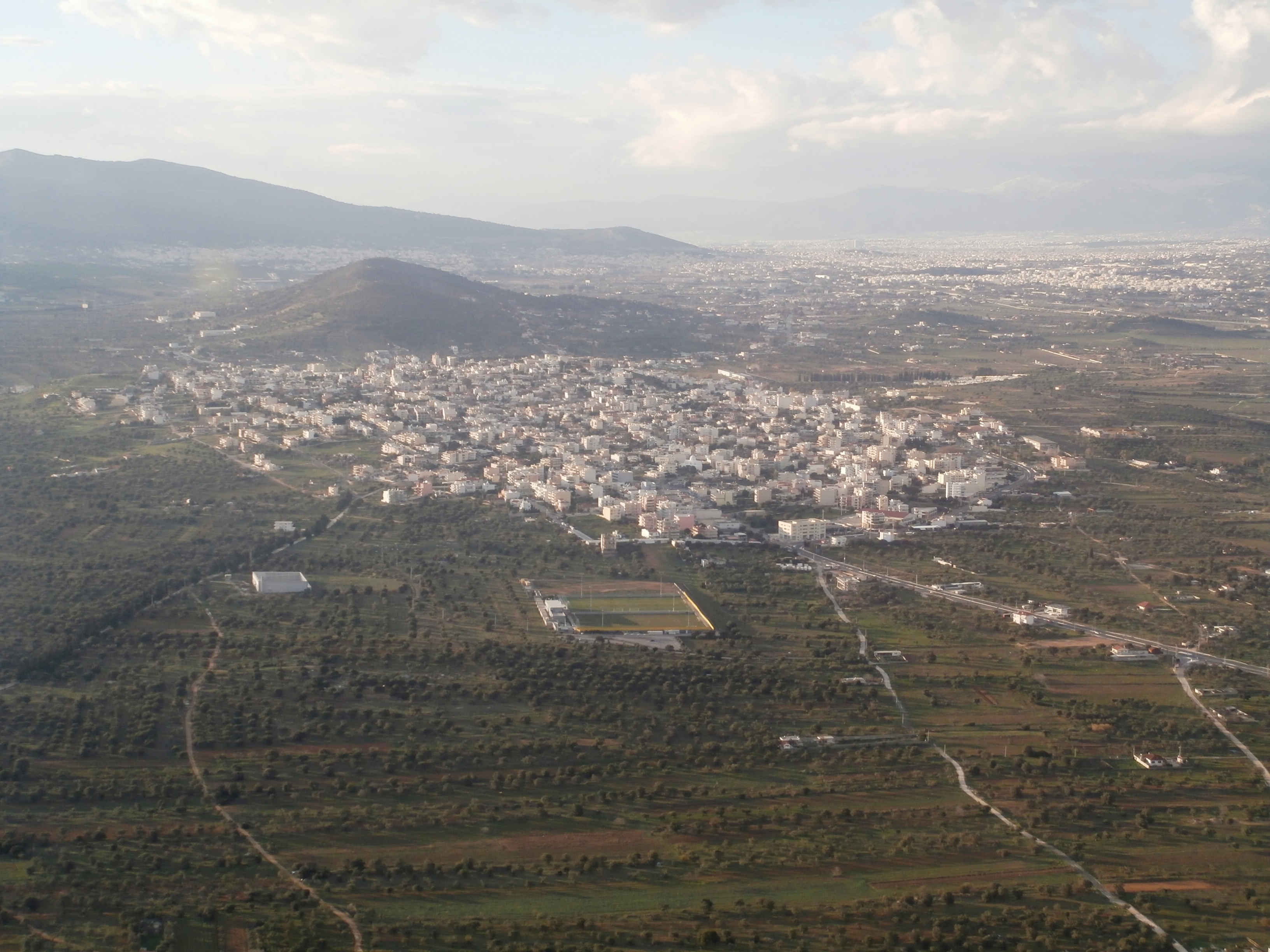 The city of Spata as seen from an airplane that took of from Athens Airport